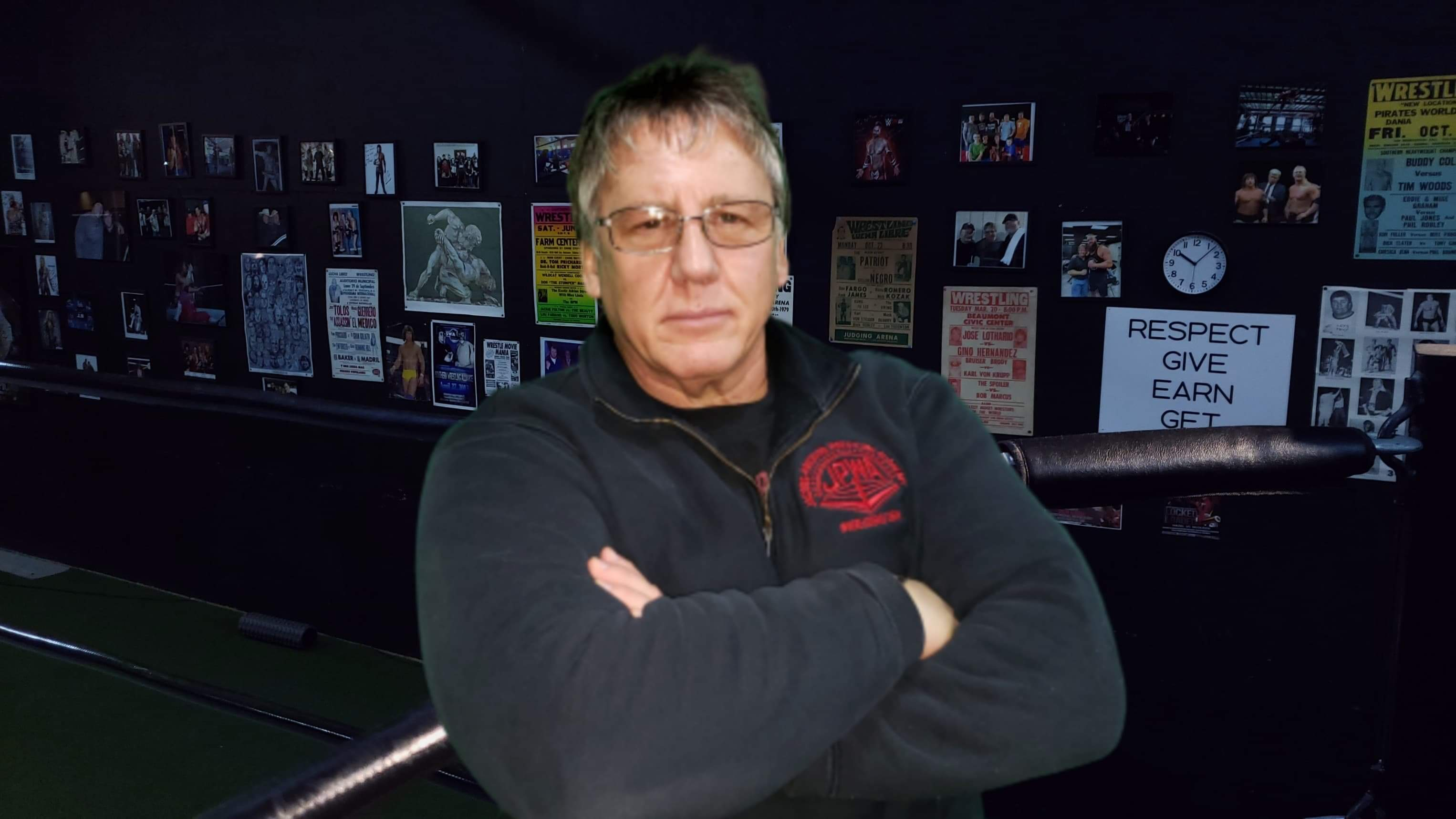 Professional wrestler Tom Prichard